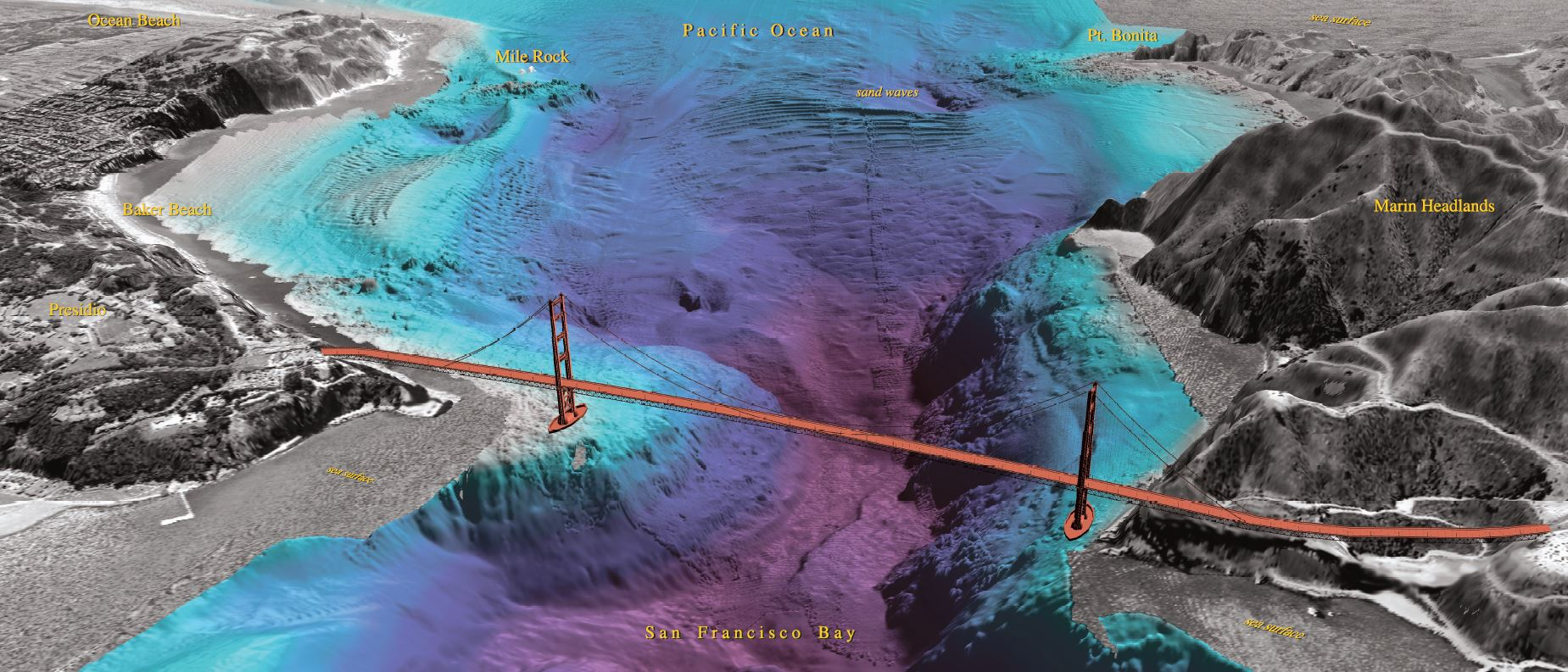 This poster shows views of the sea floor in west-central San Francisco Bay around Alcatraz and Angel Islands, underneath the Golden Gate Bridge, and through its entrance from the Pacific Ocean. The sea floor is portrayed as a shaded relief surface generated from the multibeam data color-coded for depth from light blues for the shallowest values to purples for the deepest. The land regions are portrayed by USGS digital orthophotographs (DOQs) overlaid on USGS digital elevation models (DEMs). The water depths have a 4x vertical exaggeration while the land areas have a 2x vertical exaggeration.